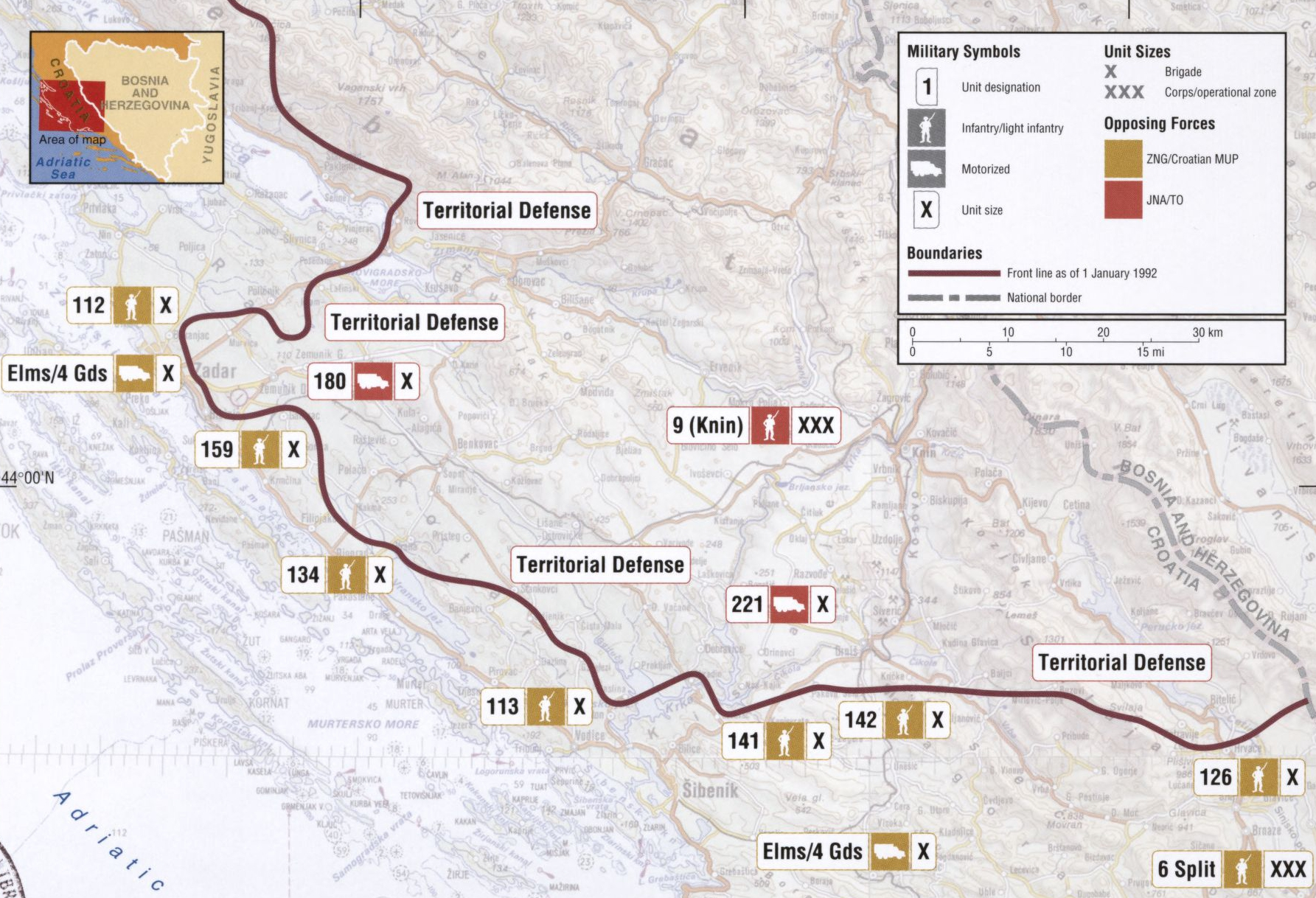 Map of front lines and military offensives in the northern Dalmatia in Croatia in January 1992 during the Croatian War of Independence. Balkan Battlegrounds Map 6.